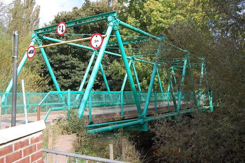 Inglis bridge over the river Monnow, Data from Geograph: Description: A military portable bridge. ICBM: 51.816142271095, -2.7165904620764 Location: (about 0 km from) near to Monmouth/Trefynwy, Monmouthshire/Sir Fynwy, Great Britain.